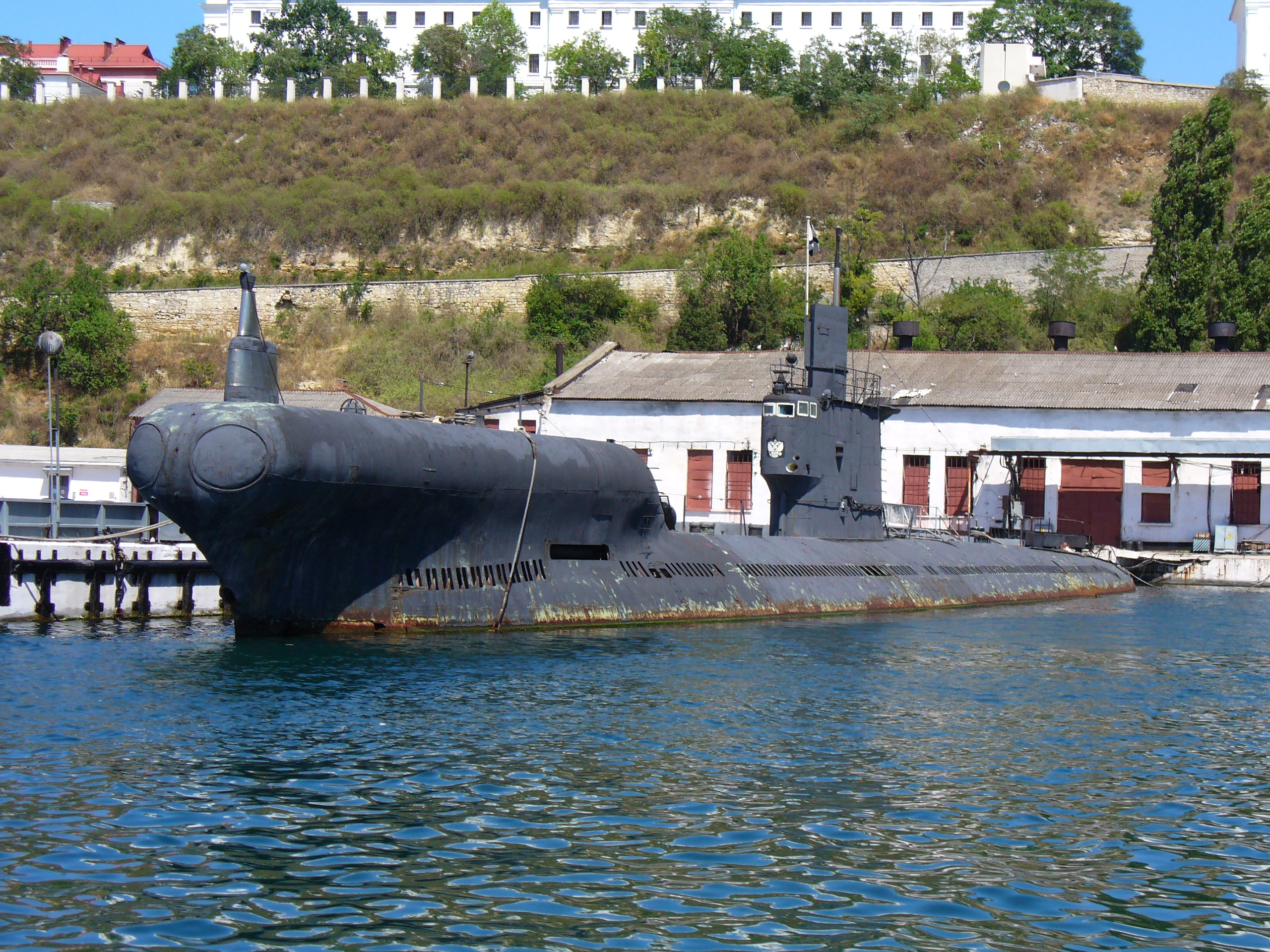 The Russian submarine PZS-50. Southern bay of Sevastopol, Russian navy, 2008. Project 633 build in USSR in 1961, modernized to Project 633RV in 1972. Other names: S-49, SS-49. Finally named PZS-50 in 1995.